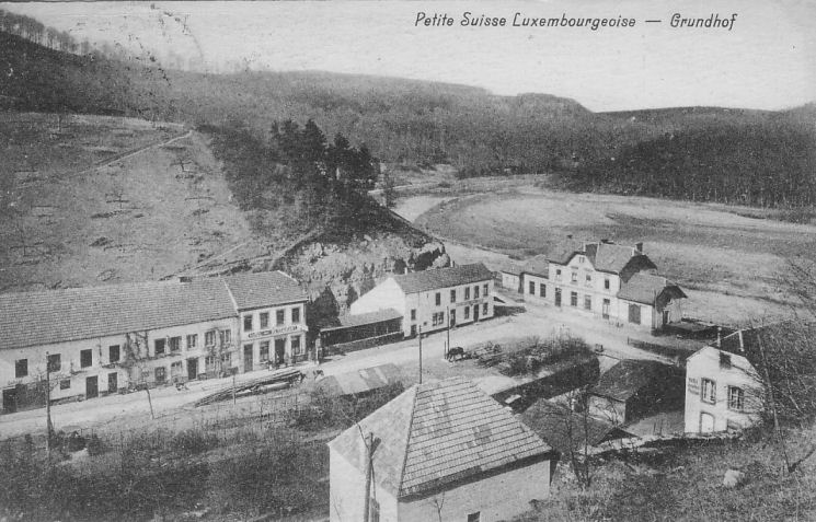 Panoramic view of Grundhof, Luxembourg. Photo taken by Jacques Marie Bellwald.